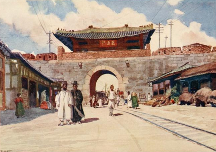 The gates of Seoul.